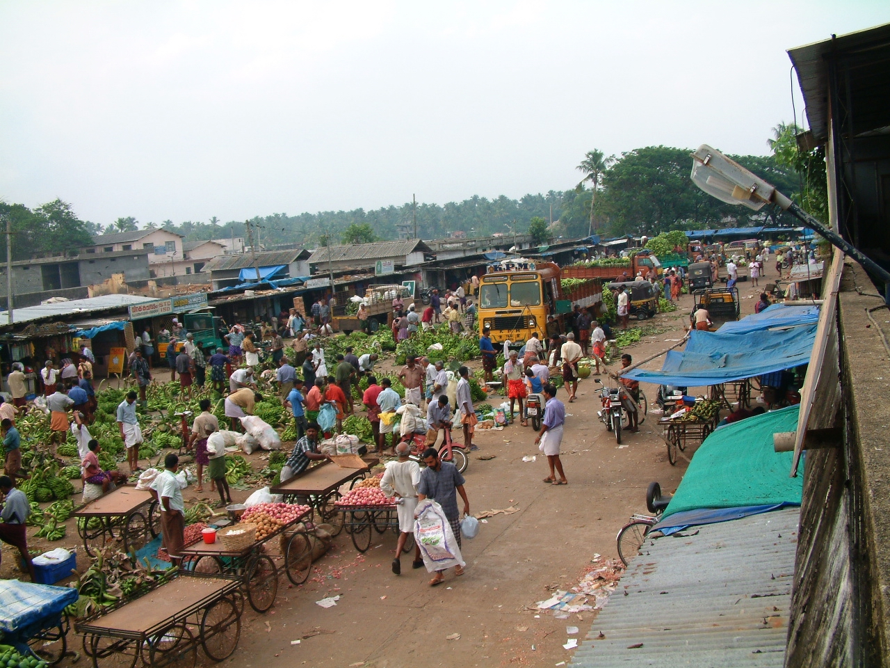 Chalakudy market